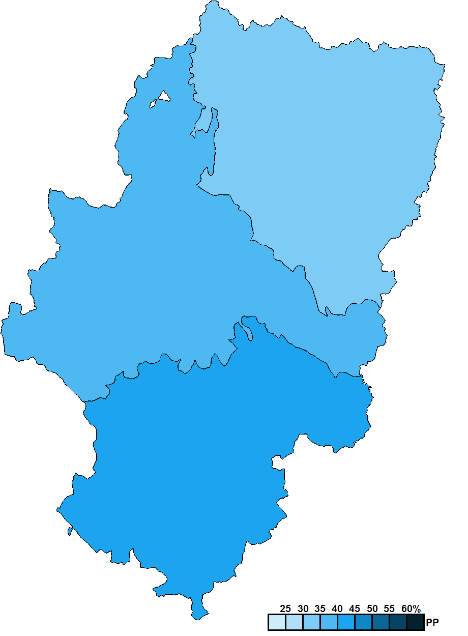 Provincial results for the 1995 Aragonese regional election.